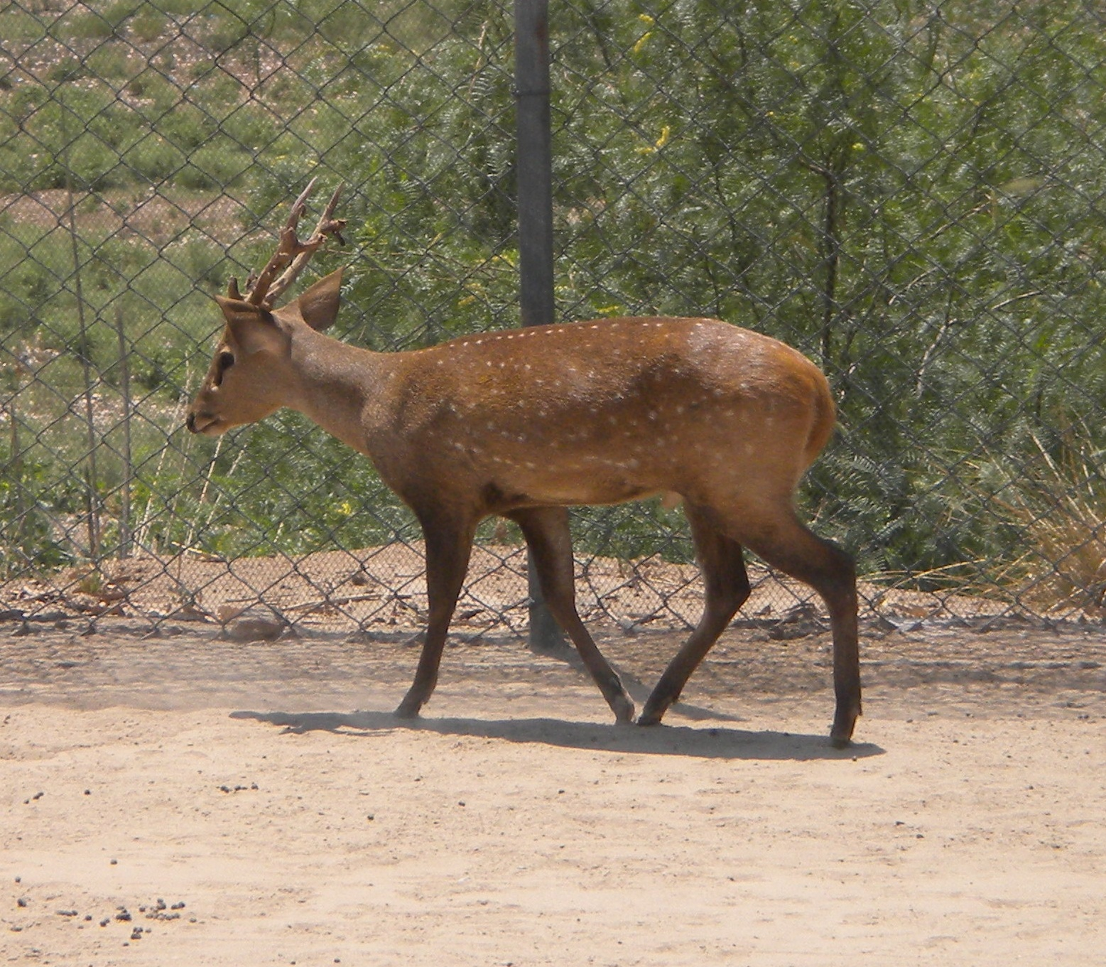 Hog Deer in Punjab Pakistan